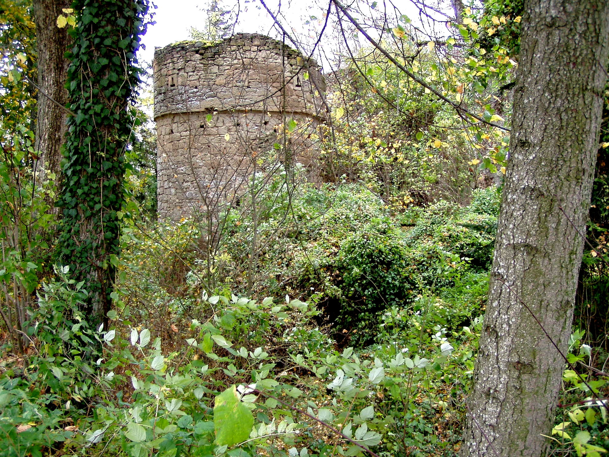 Ruine Hinterfrankenberg im Steigerwald